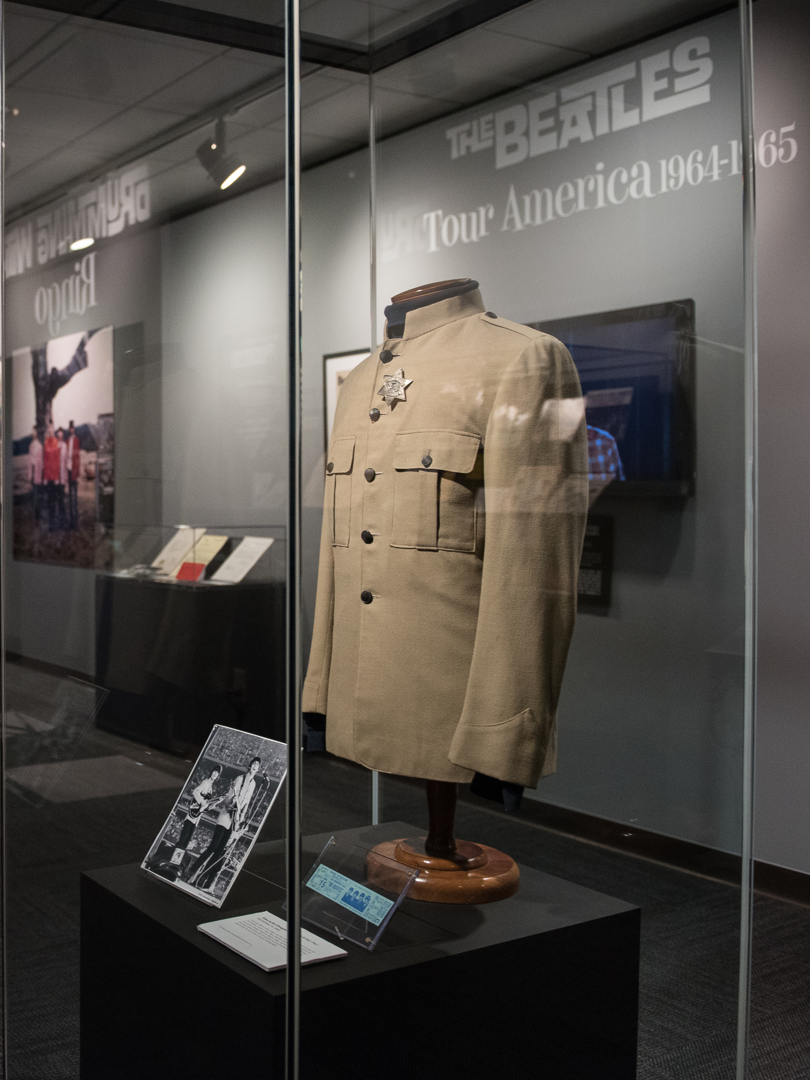 "Ladies and Gentlemen...The Beatles!", a traveling exhibit curated by the GRAMMY Museum® and Fab Four Exhibits, is on display at the LBJ Presidential Library from June 13, 2015 through January 10, 2016. Photo by Lauren Gerson. Flickr album Exhibit: "Ladies and Gentlemen... the Beatles!" "Ladies and Gentlemen…The Beatles!" is a traveling exhibit curated by the GRAMMY Museum® and Fab Four Exhibits that explores the impact The Beatles' arrival had on American pop culture, including fashion, art, advertising, media and music, from early 1964 through mid-1966 – when the British boy band was at its peak. On display will be more than 400 pieces of memorabilia, records, rare photographs, tour artifacts, video, and instruments from private collectors and the GRAMMY Museum, including the original Ludwig drum head Ringo played on "The Ed Sullivan Show." It even includes an oral history booth where visitors can leave their own impressions of the timeless group. Photos by Lauren Gerson.